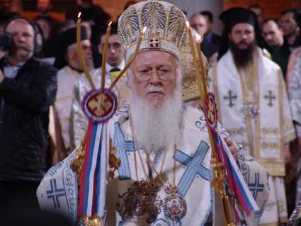 Ecumenical Patriarch Bartholomew and Archbishop Jovan of Ohrid serve a common Liturgy